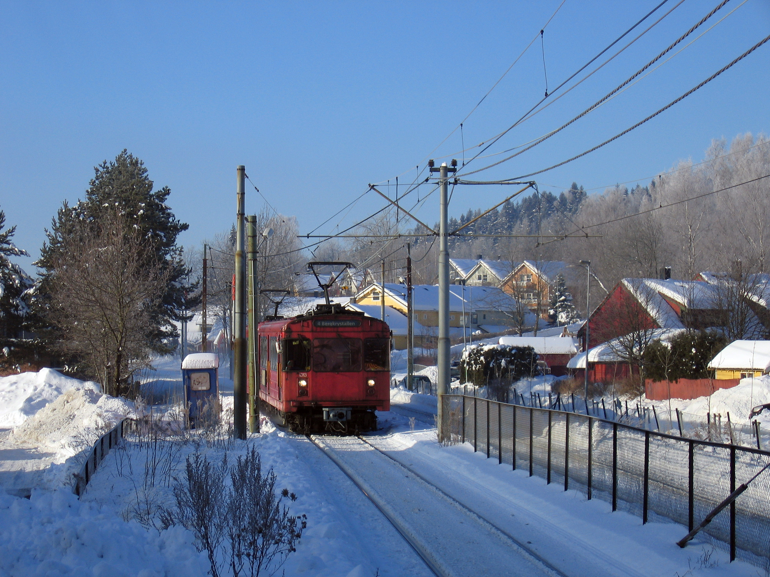 1300 type, T5 class no. 1313 at Valler station